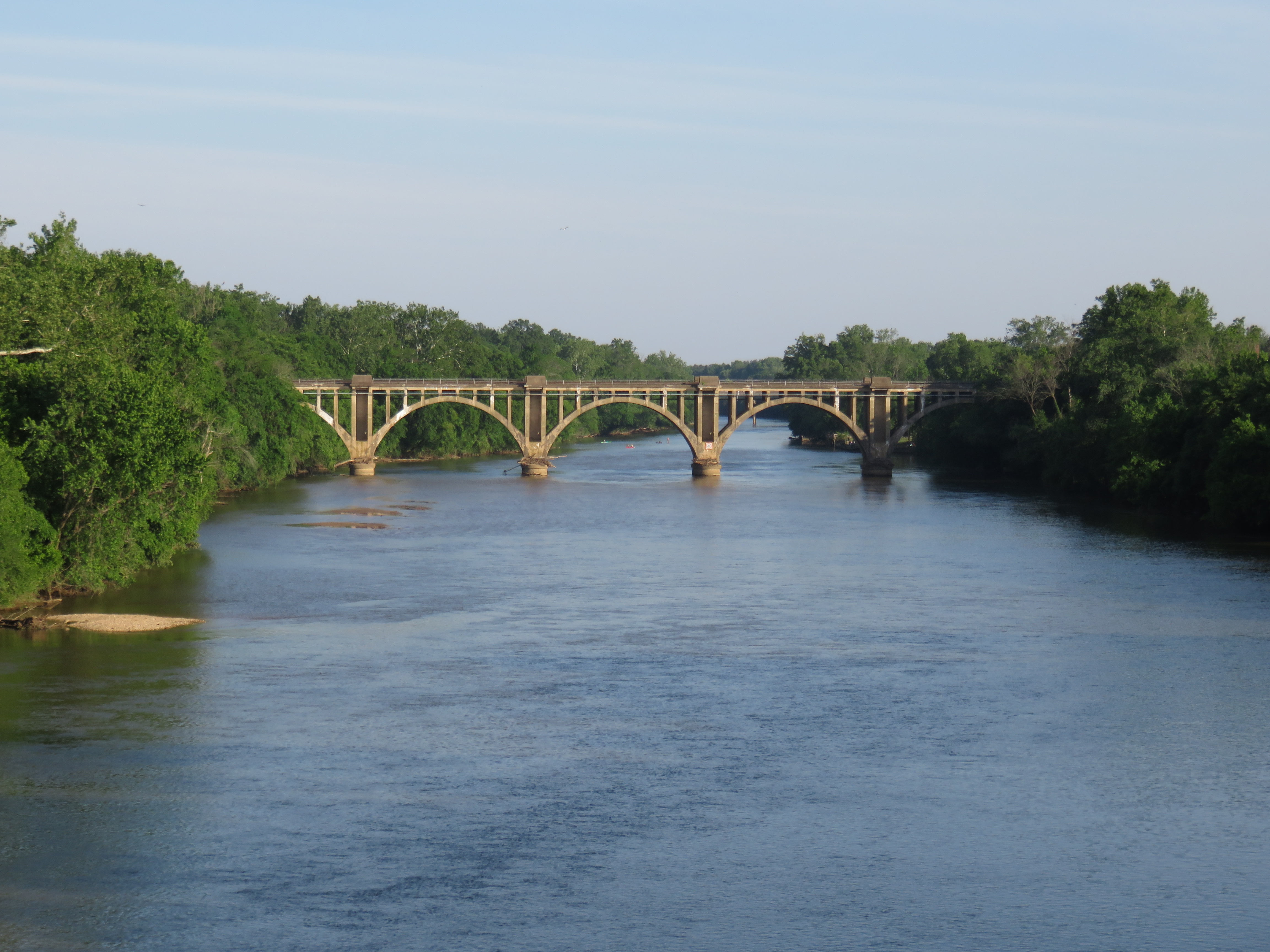 Fredericksburg RF&P Subdivision Rail Bridge over the Rappahannock River in Fredericksburg, Virginia viewed from the Chatham Bridge in 2017